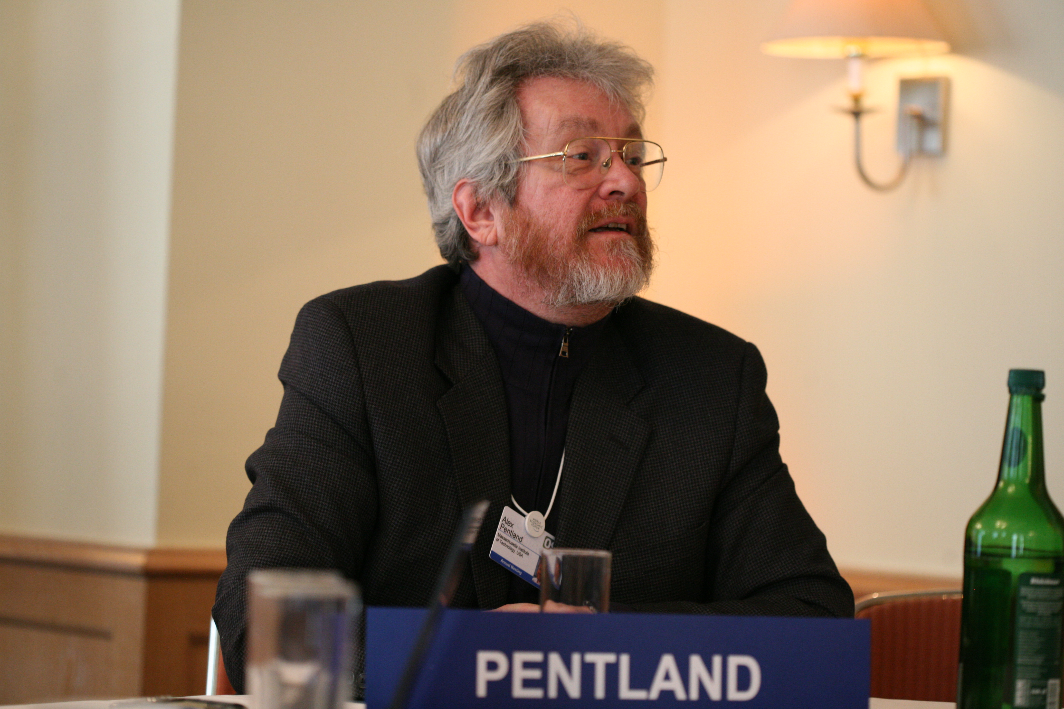 Pictures from the World Economic Forum 2009 in Davos, Switzerland.